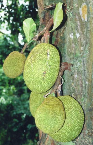 Jackfruit (Artocarpus heterophyllus) fruits at the tree